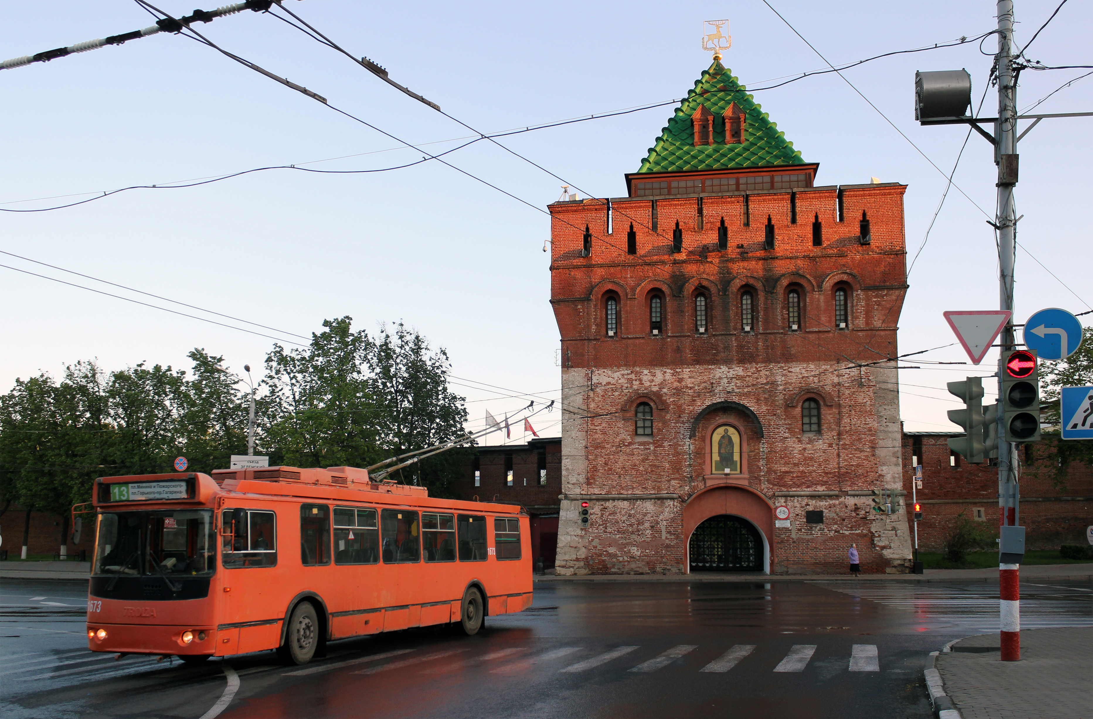 Nizhny Novgorod Kremlin. Dmitrovskaya tower. View from Minin and Pozharsky Square